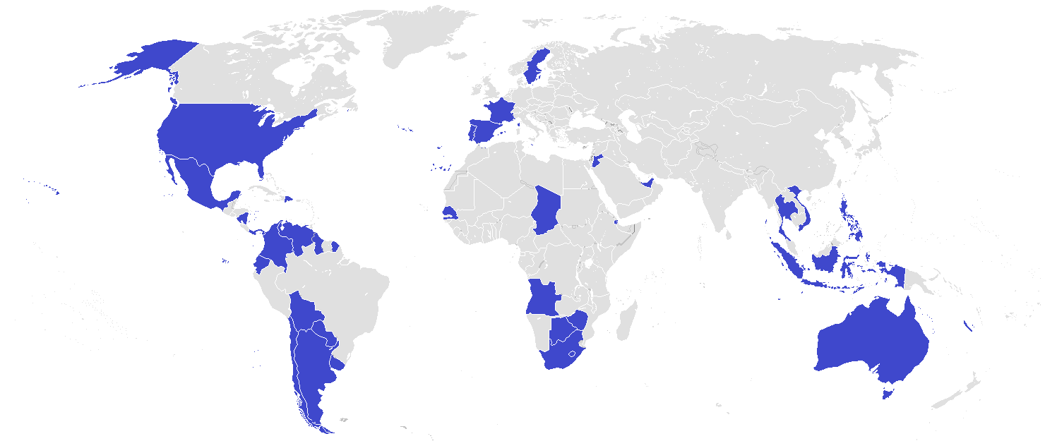 Aviocar CASA C-212 Operators